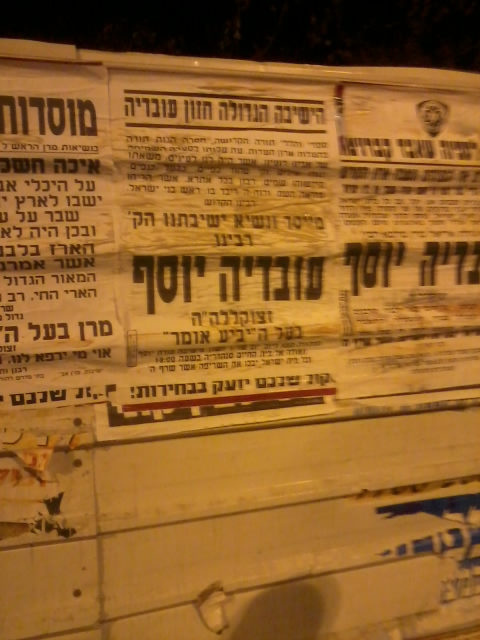 מודעות האבל